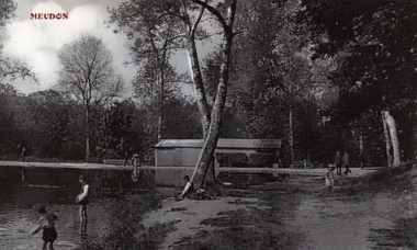 Scan of an old postacd of the forest of Meudon Forêt de Meudon fin XIXe ou début XXe siècle